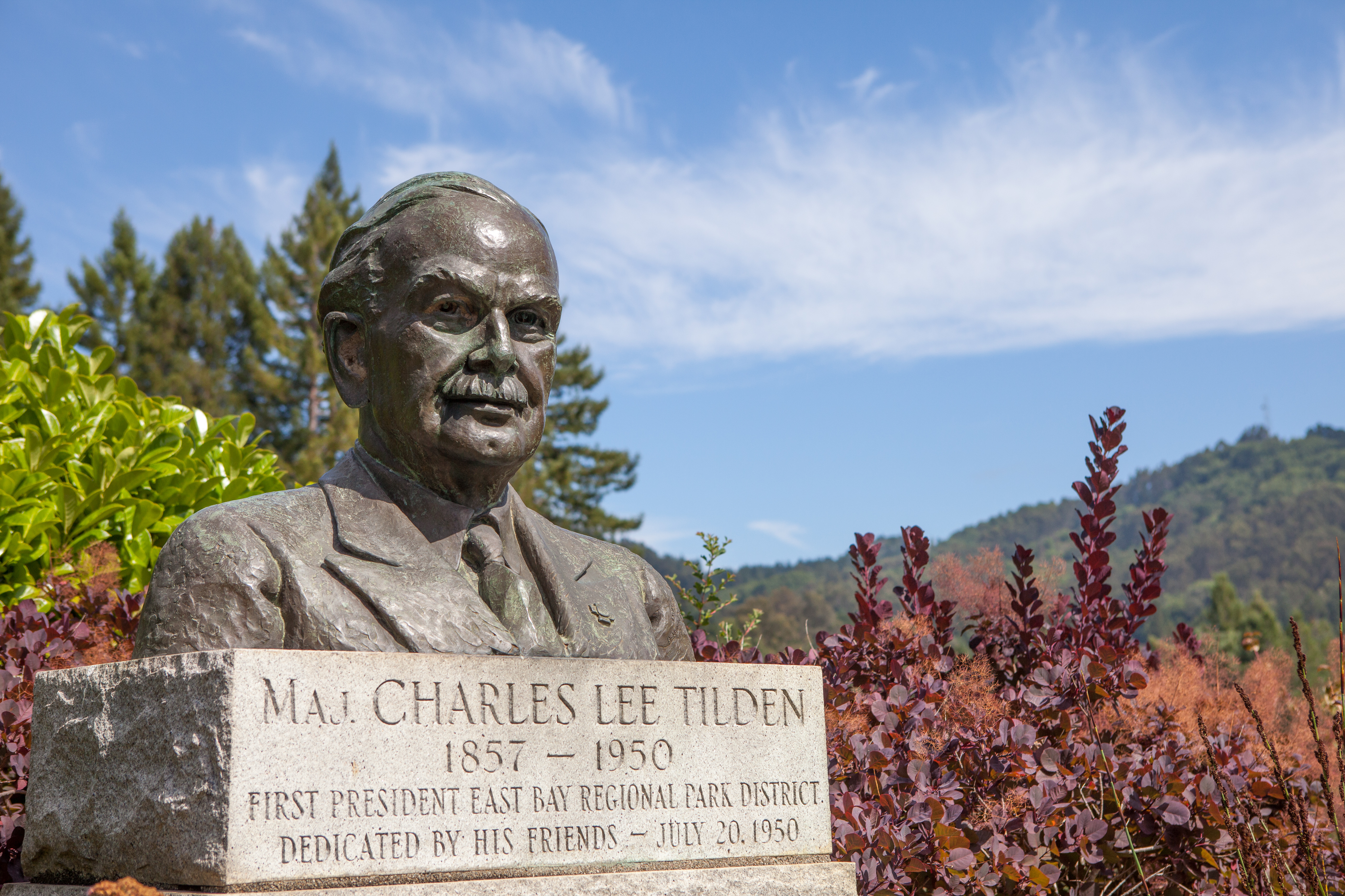 Bust of Major Charles Lee Tilden, located outside the Brazilian Room in Tilden Park, Berkeley, California, US. Sculptor: Helen Webster Jensen.